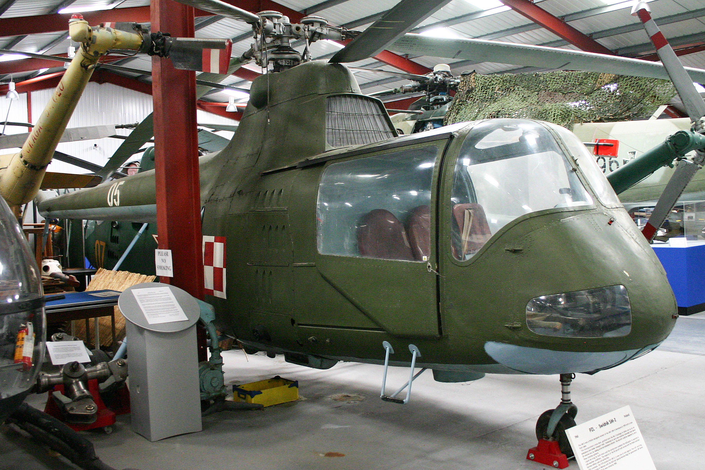 Full serial '1005' msn S2-01005 International Helicopter Museum. Weston-Super-Mare. 15-6-2011